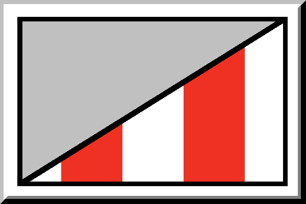 Fantasy flag of the Spanish football club Athletic de Bilbao, created using Microsoft Paint